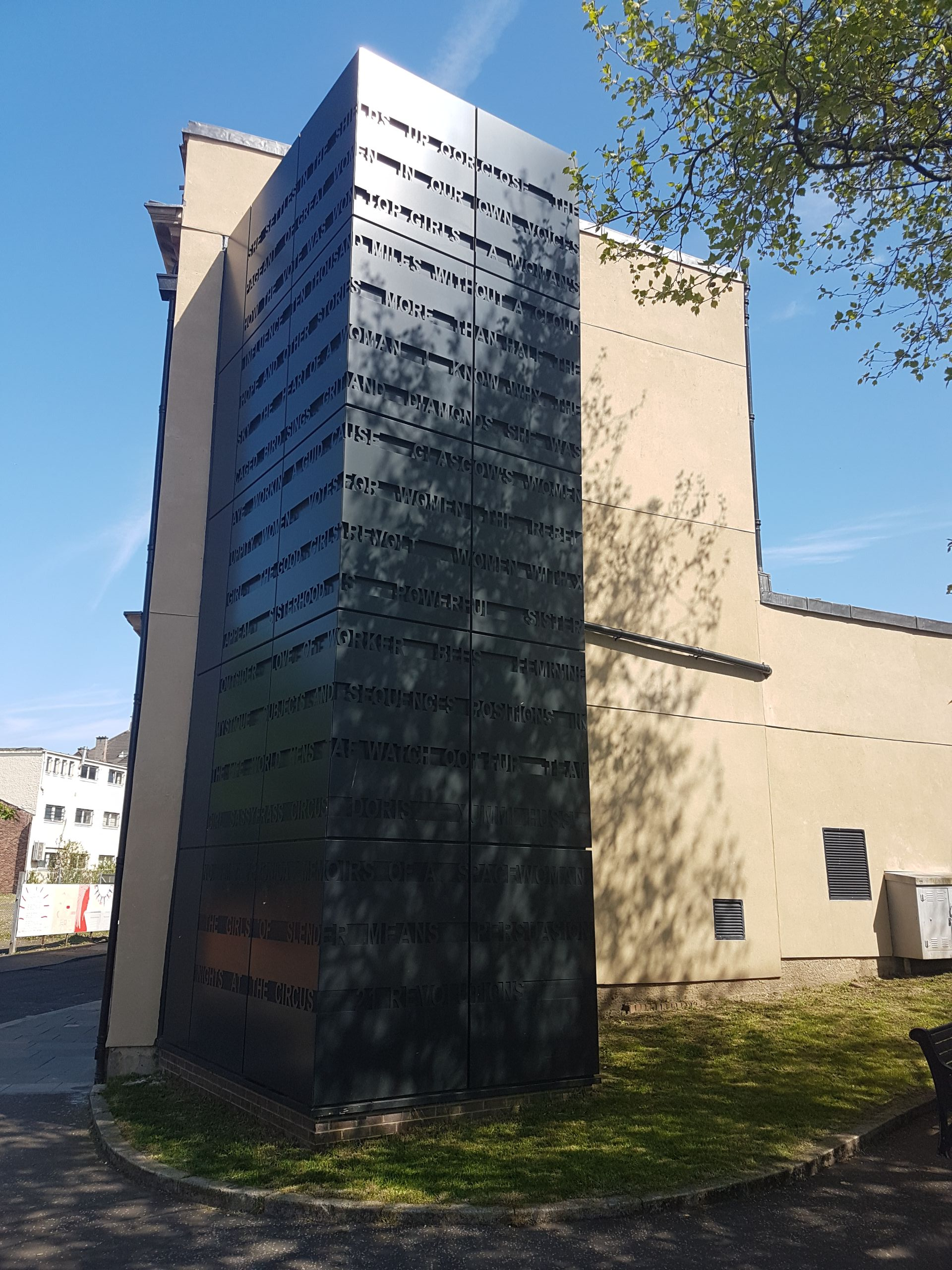 23 Landressy Street, Bridgeton Public Library Wikidata has entry Q17814181 with data related to this item.